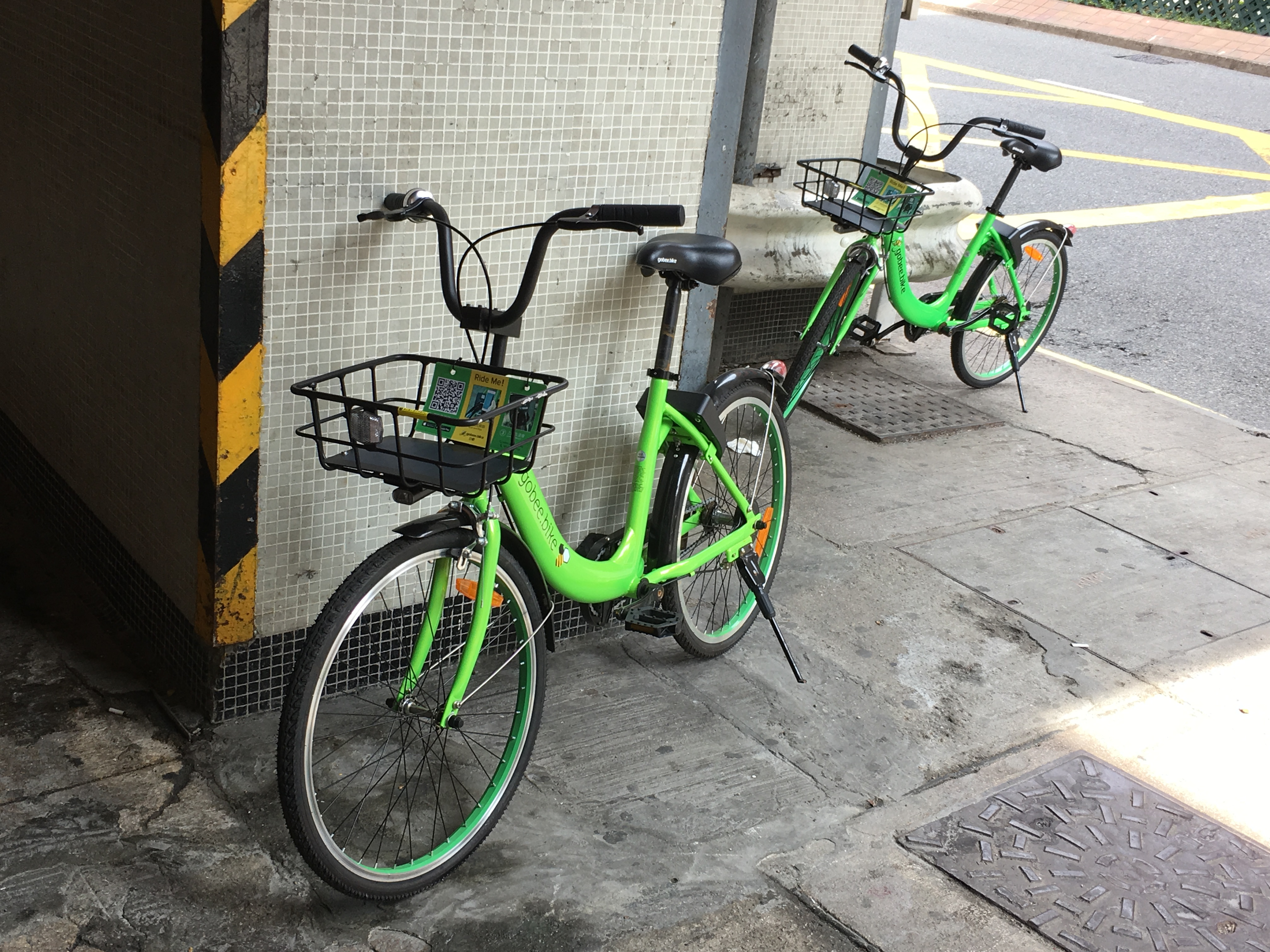 This photo is taken in Sha Tin.